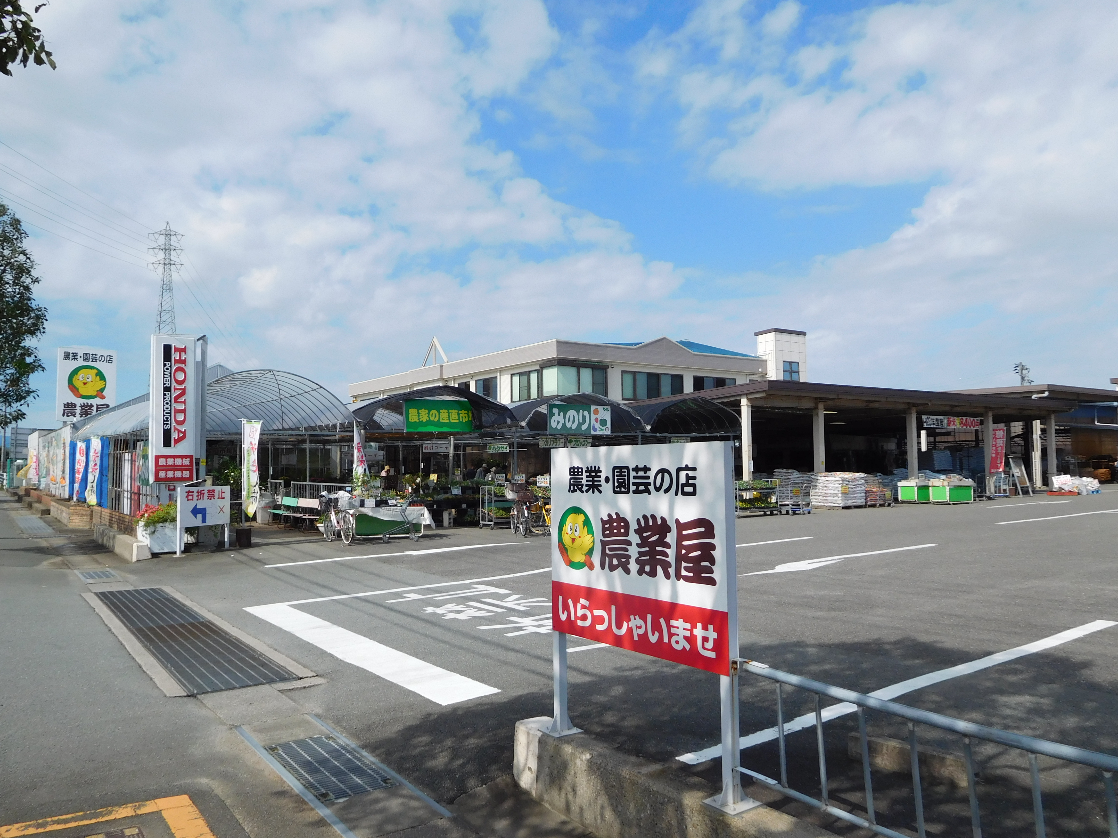 This is the Head office of Kuragi Co.,Ltd. in Matsusaka, Mie, Japan.